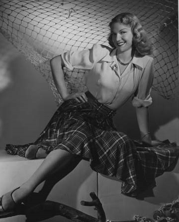 Patricia Castell- actriz